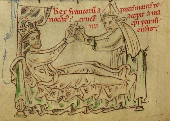 Louis IX cured by the True Cross. Matthew Paris, Historia Anglorum, British Library, Royal 14 C VII f. 137v